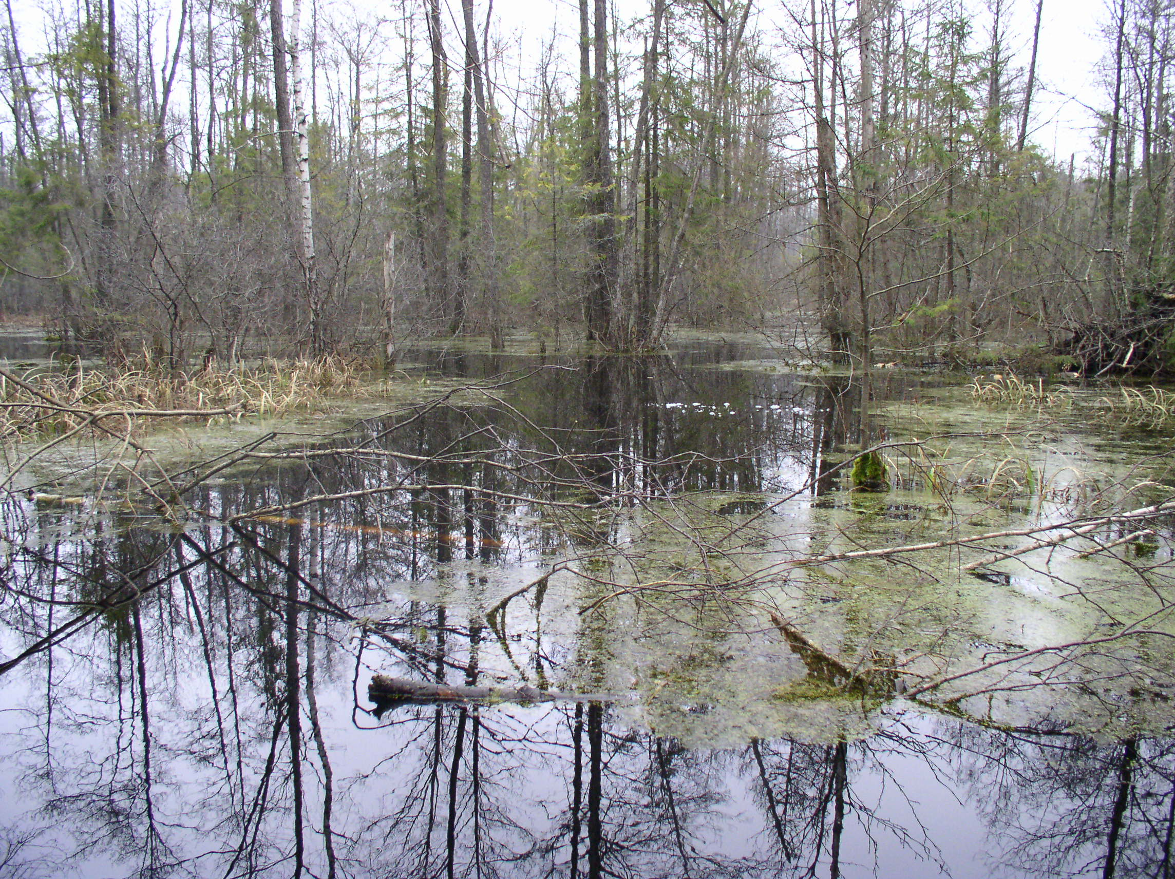 Swamp at peat mining near Rudzensk, Belarus.